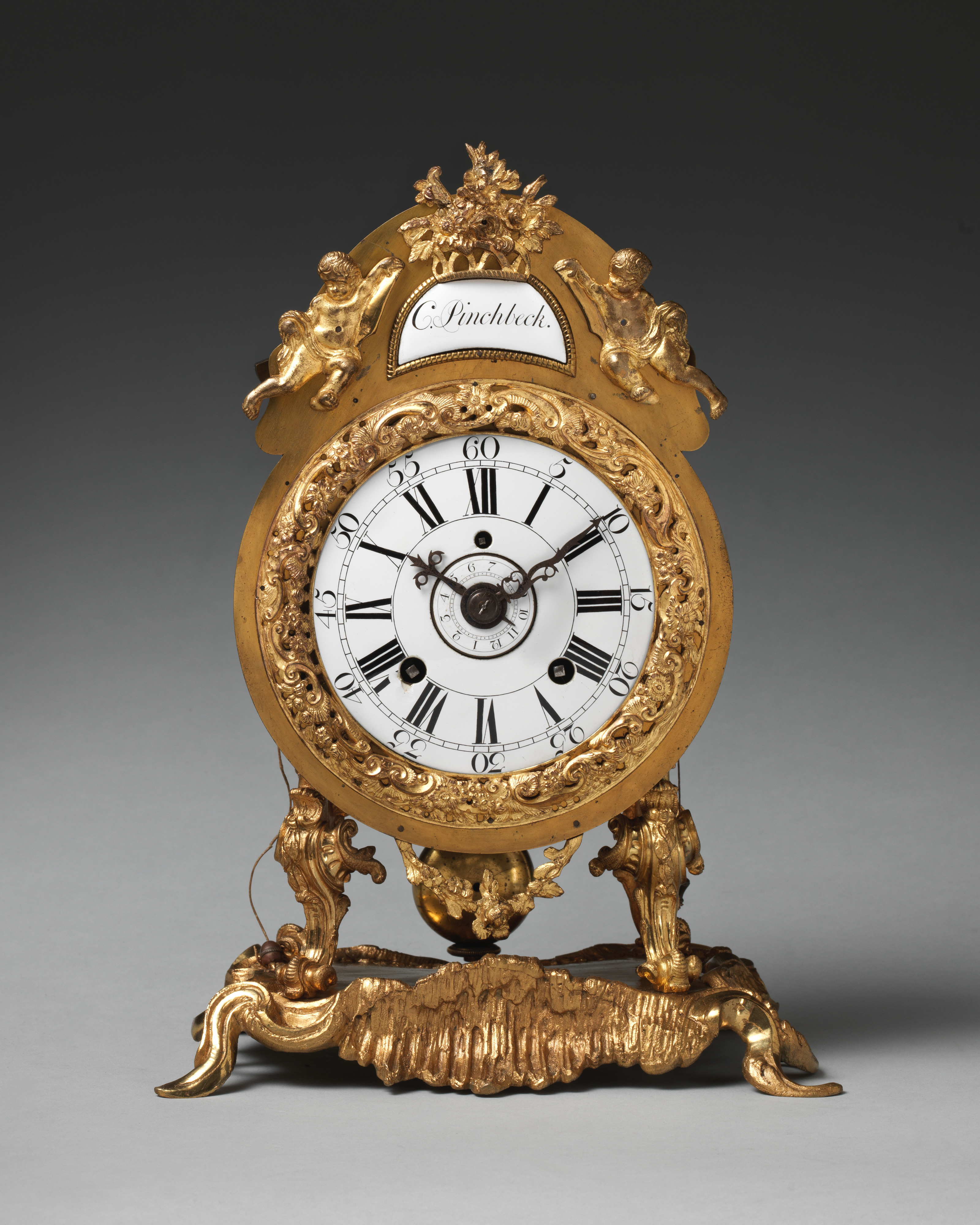 British, London; Table or bracket clock; Horology